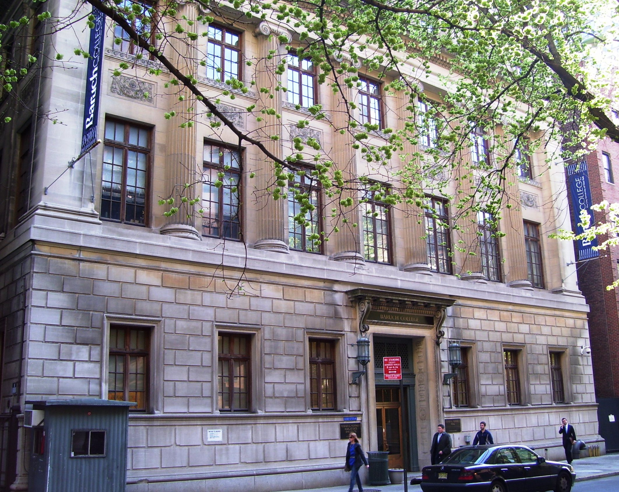 Steven L. Newman Hall of Baruch College, at 137 East 22nd Street, between Third and Lexington Avenues, in the Gramercy Park neighborhood of Manhattan, New York City was formerly the Children's Court Bulding. It was built in 1912-1916 and was designed by Crow, Lewis & Wickenhoefer.